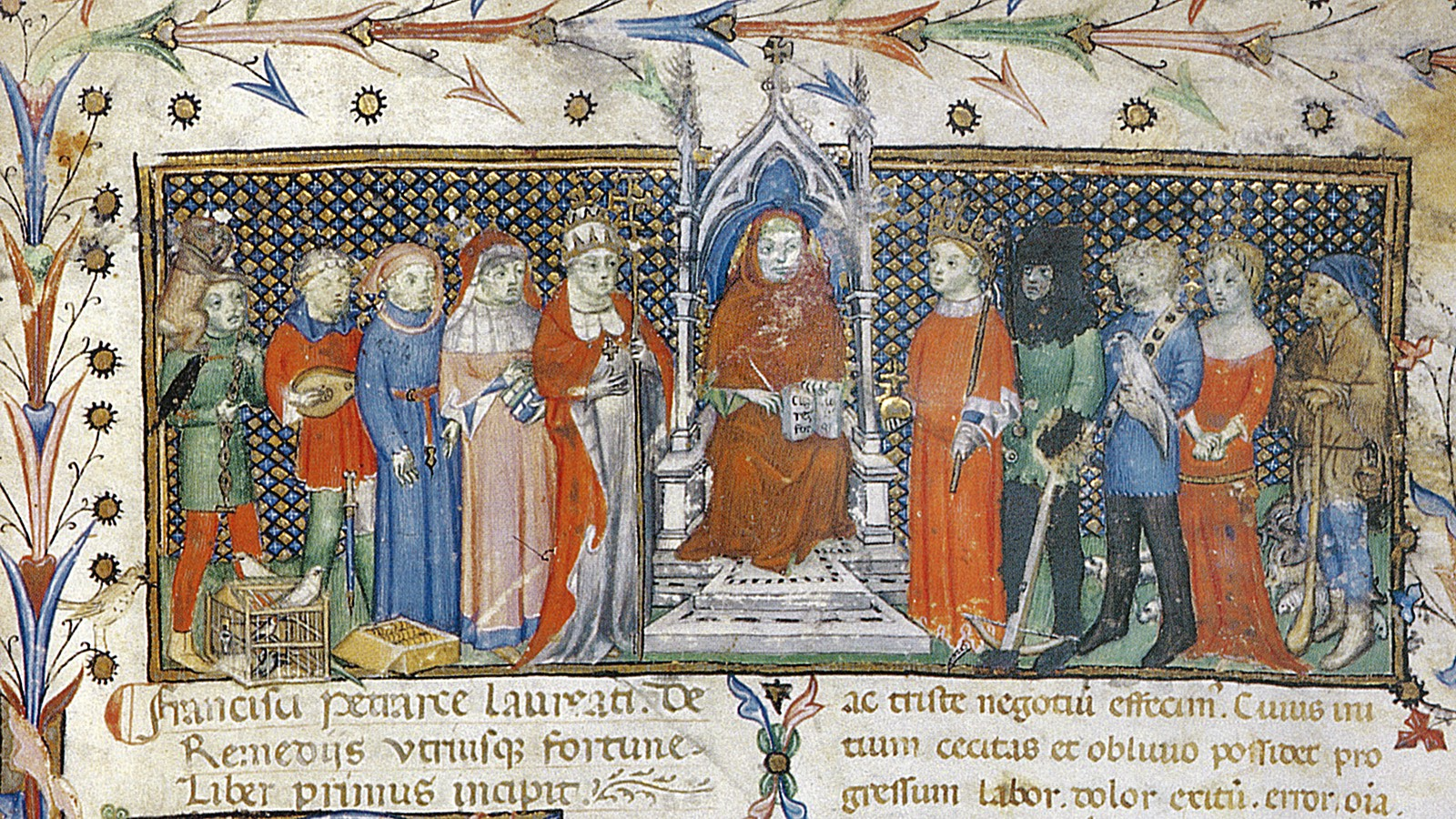 This ranks-of-man design (estates and conditions) came from a Milanese manuscript of Francesco Petrarch's De Remediis Utriusque Fortunae, c.1400. (MS. Biblioteca Nationale Braidense AD XIII 30.) It is attributed to the workshop of Fra Pietro da Pavia, a miniaturist active late 14th century. It depicts the auctor addressing his work to an audience representing all Mankind, from the highest (the pope) to the lowest (a pauper and a jester). Remediis consists of dialogues between the Passions (Hope, Fear, Joy, Sorrow) and Virtue (Reason), and the lessons about Fortune apply to all. The figures are assembled on grass, with a diapered background. (Such decorative backgrounds were commonly seen in medieval miniatures, being gradually replaced with landscapes in the 15th century. This particular style is reminiscent of Provençal manuscripts.) From left to right, the figures include Jester/Fool (with a monkey, red-beaked black bird, cage of other birds); Minstrel (playing a lute); Merchant (with an open chest of money); Doctor of Law (with books); Pope (with a tiara and processional staff); Petrarch (enthroned in a Gothic cathedra, with a pen and open book showing the incipit of Remediis: Cum res fortunasque); King (crowned, with orb, scepter, ermine trimmed robe); Soldier (with crossbow); Gentleman (with falcon and hounds); Woman (blond, with red dress); Shepherd/Pauper (with ragged clothes, sheep, cudgel). The text on the left side reads: Francisci Petrarce laureati. De Remediis utriusque fortune. Liber primus incipit.